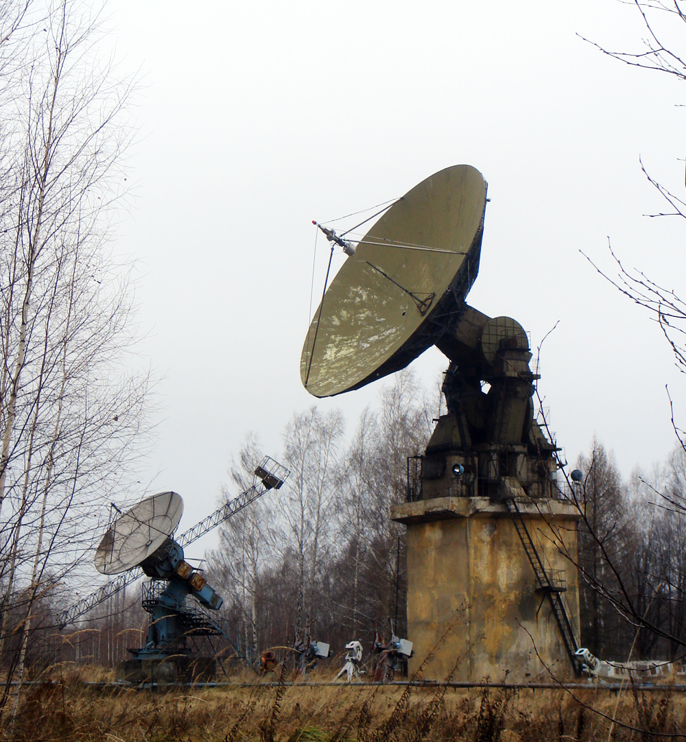 Radiotelescopes of Zimenki Radio Astronomy Station, Kstovsky District of Nizhny Novogord Region, Russia.